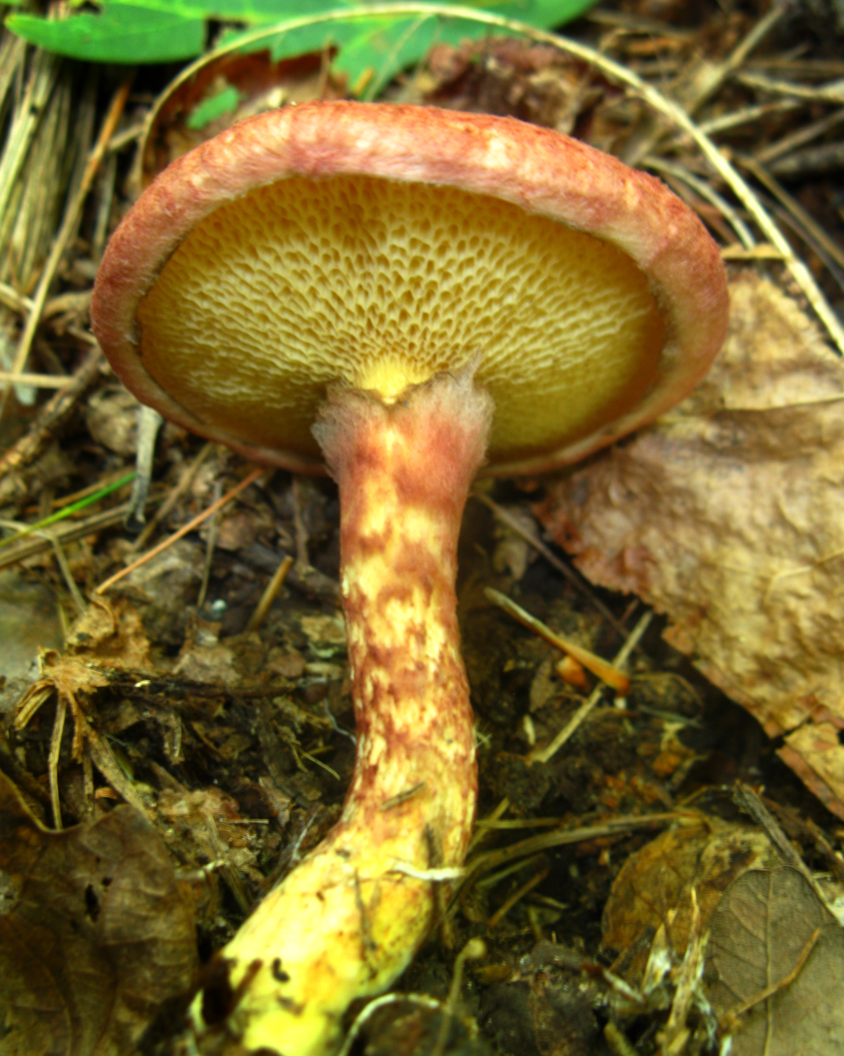 The mushroom Suillus spraguei (also called Suillus pictus, as well as several other synonyms). Specimen photographed in Chattahoochee National Forest, Minnehaha Trail, Rabun Co., Georgia, USA.